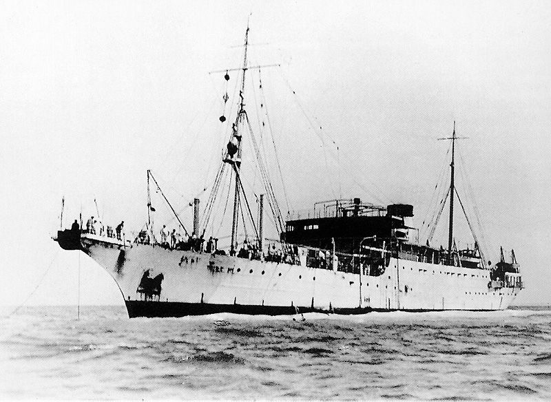 The french cableship "Ampere2" in 1930.